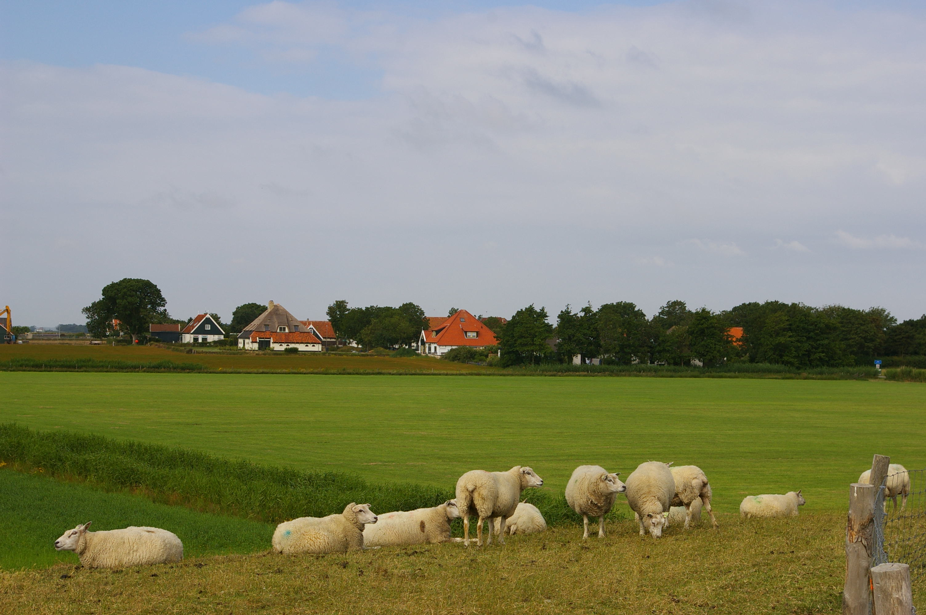 View of the village of Oost, Texel, the Netherlands. Used on Oost (Texel).